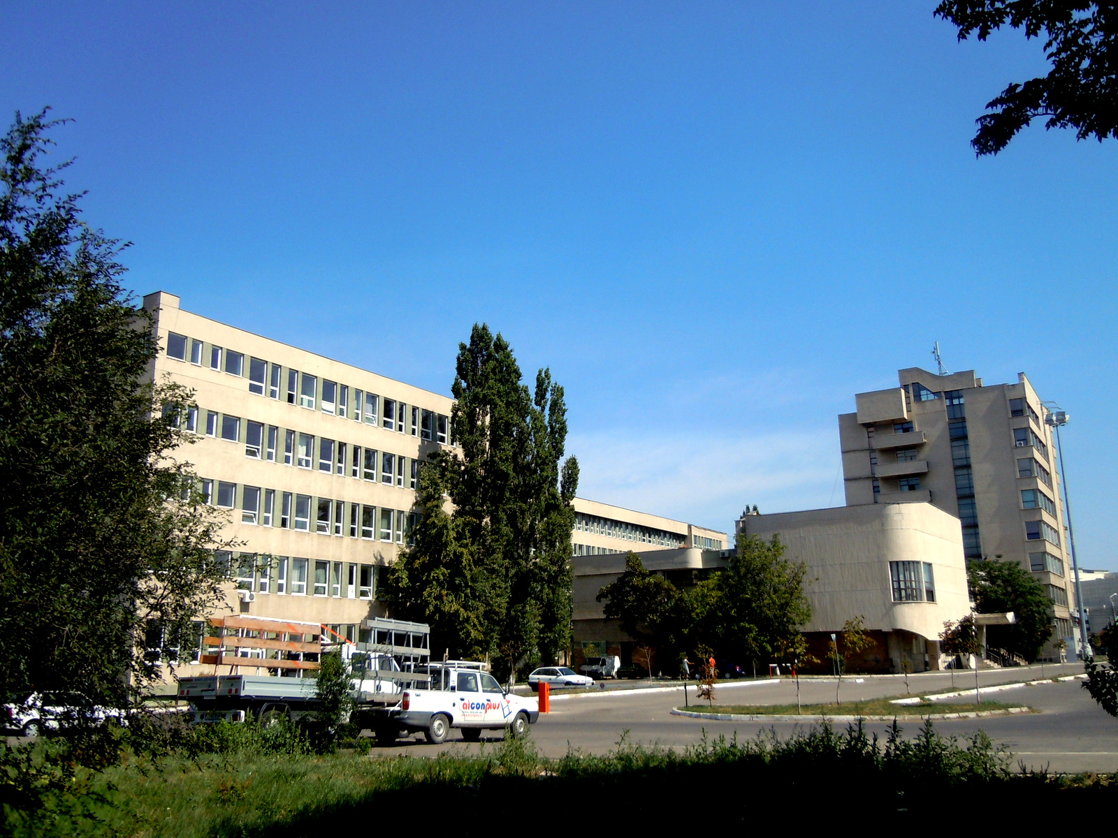 Iaşi , Faculty of chemical engineering and environmental protection of the Technical University „Gheorghe Asachi“ , Iaşi , Romania